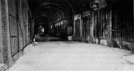 Site of the moat that surrounded Tabriz, Where the Bab's body was thrown and buried.